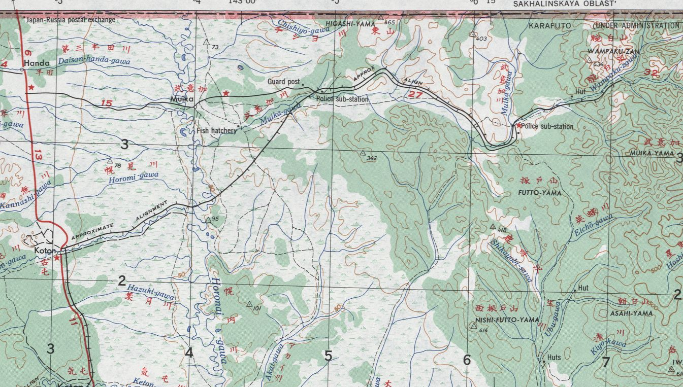 List from Eastern Siberia AMS Topographic Maps. Series N504, U.S. Army Map Service, 1947